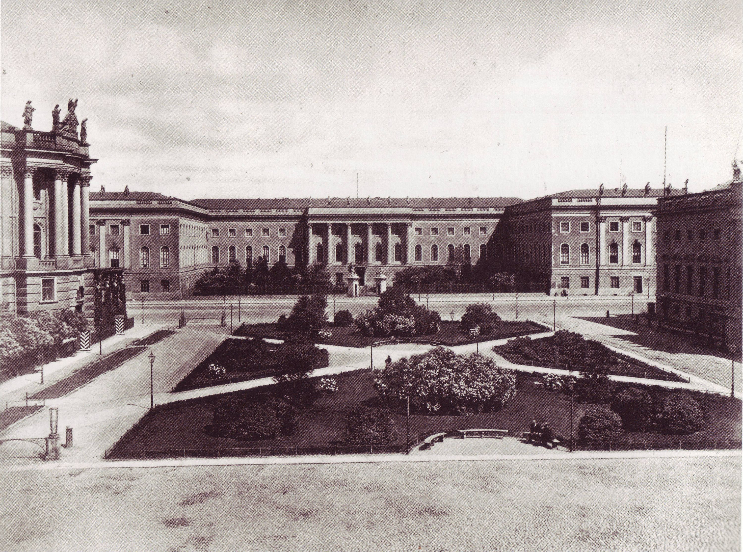 Place at the Opera House (today: Bebelplatz) with main building of Berlin University, around 1880